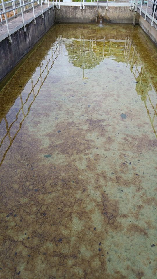 Schmutzdecke at Almunge water treatment plant 2015